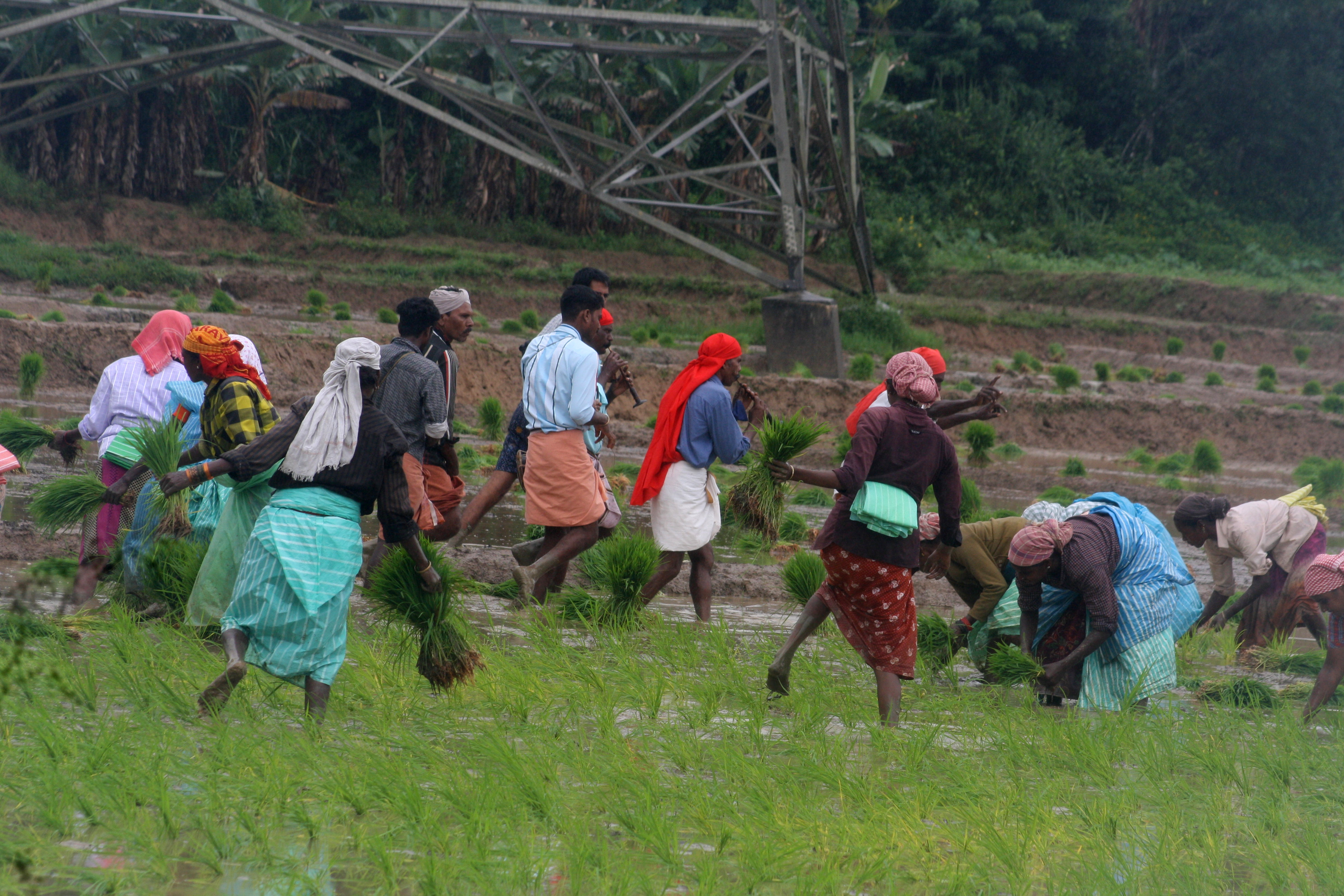 Kamabala Natti (planting of saplings in the paddy field along with music and dance performance) performed at Pulikkal Vayal in Mananthavadi Municipality on 27.08.2017